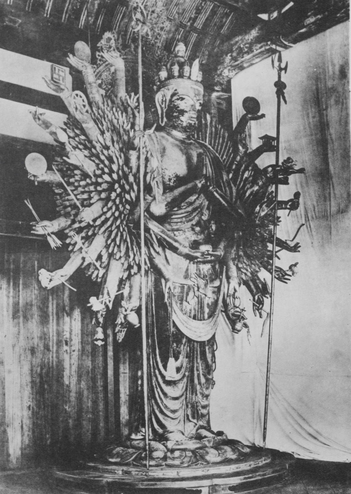 Thousand-armed Kannon Wood-core dry lacquer gold leaf over lacquer , 536cm, late 8th century, Nara Period, Kon-dō, Tōshōdai-ji, Nara, Japan